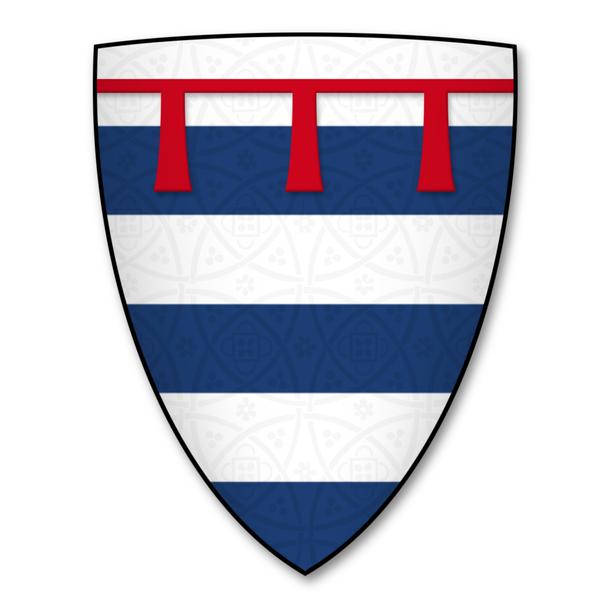 Armorial Bearings of the GREY family of Wilton Castle, Bridstow, Herefs. Arms: Barry of six argent and azure a label gules. Strong, George (1848) The Heraldry of Herefordshire: Being a Collection of the Armorial Bearings of Families Which Have Been Seated in the County at Various Periods Down to the Present Time., London: Churton Press